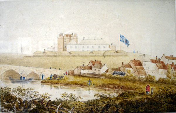 Charlemont Fort, County Armagh Found at [dead link]